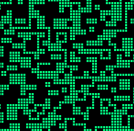 The pattern produced by the Margolus-neighborhood rule Trip-a-Tron, from the Toffoli and Margolus book.